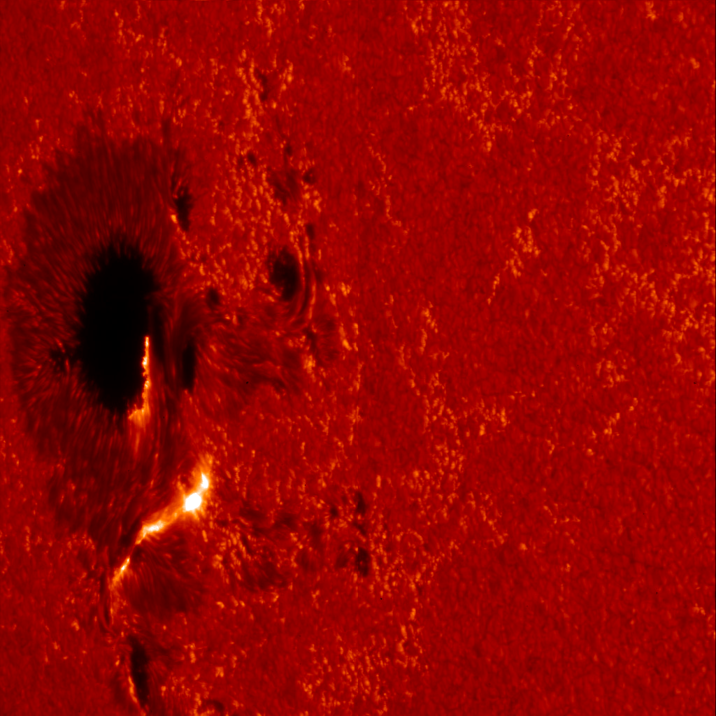 A solar flare (not to be mistaken with Solar Prominence) photographed by Hinode. The solar flare can be seen as two narrow, elongated, bright structures (ribbons) over the southern part of the sunspot.